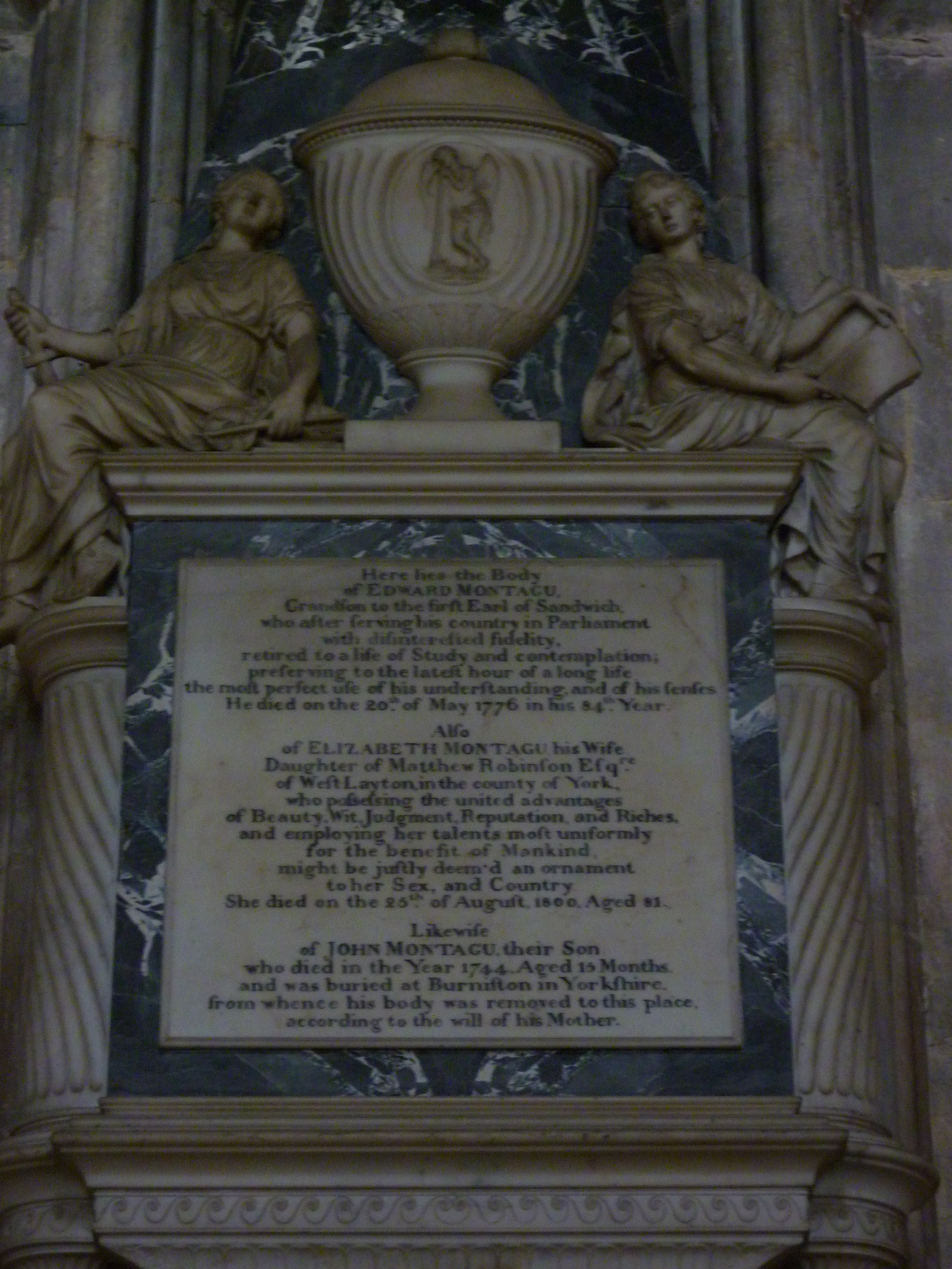 Photograph of memorial to Edward Montagu, his wife, Elizabeth, née Robinson, and their infant son, John, in the north aisle of Winchester Cathedral.